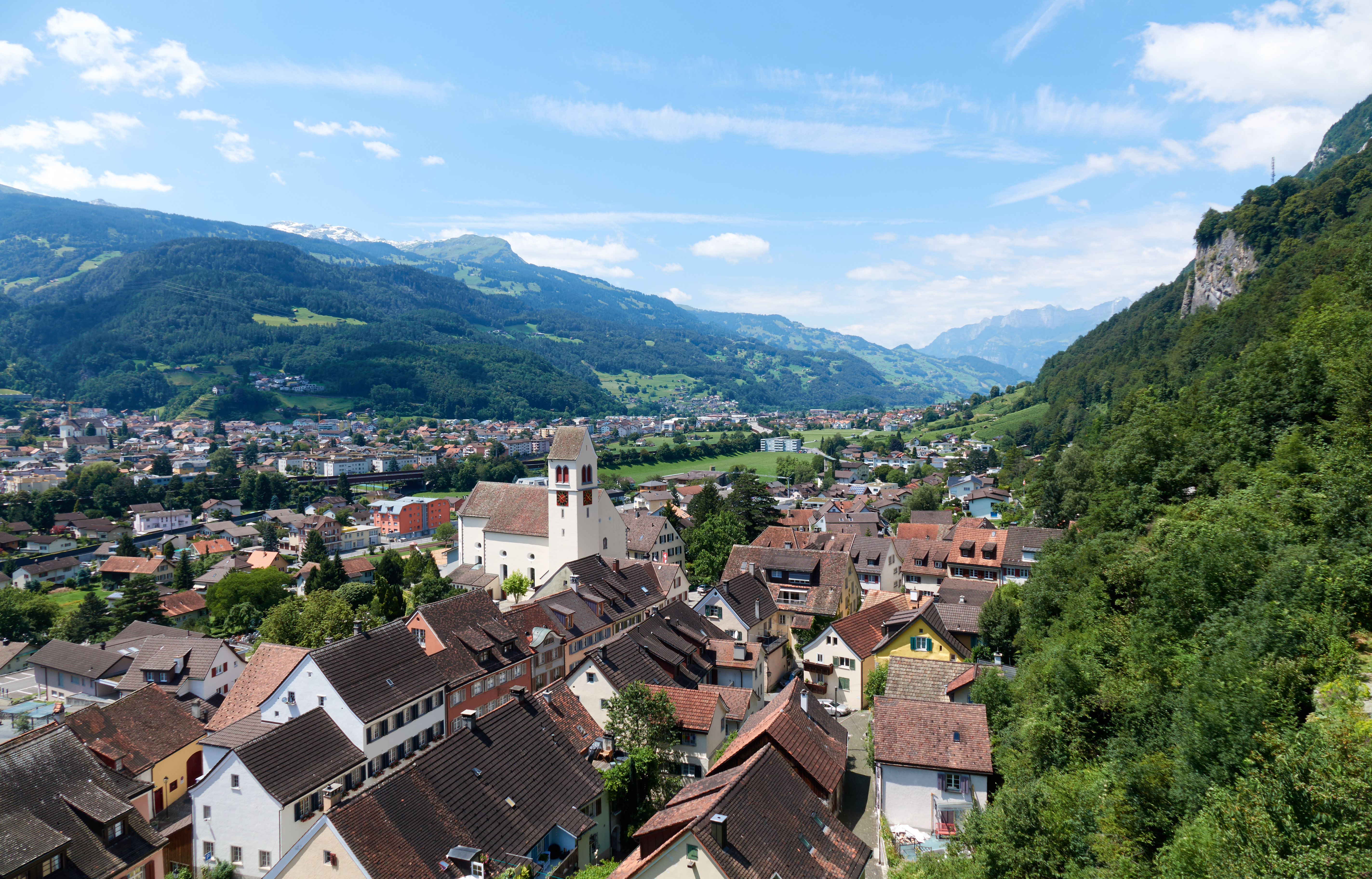 Overlooking the city of Vaduz, taken near Vaduz Castle